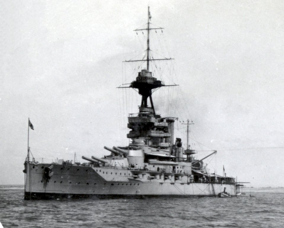 HMS Emperor of India off Jaffa . LC-DIG-ppmsca-13291-00192 (digital file from original, page 61, no. 192)